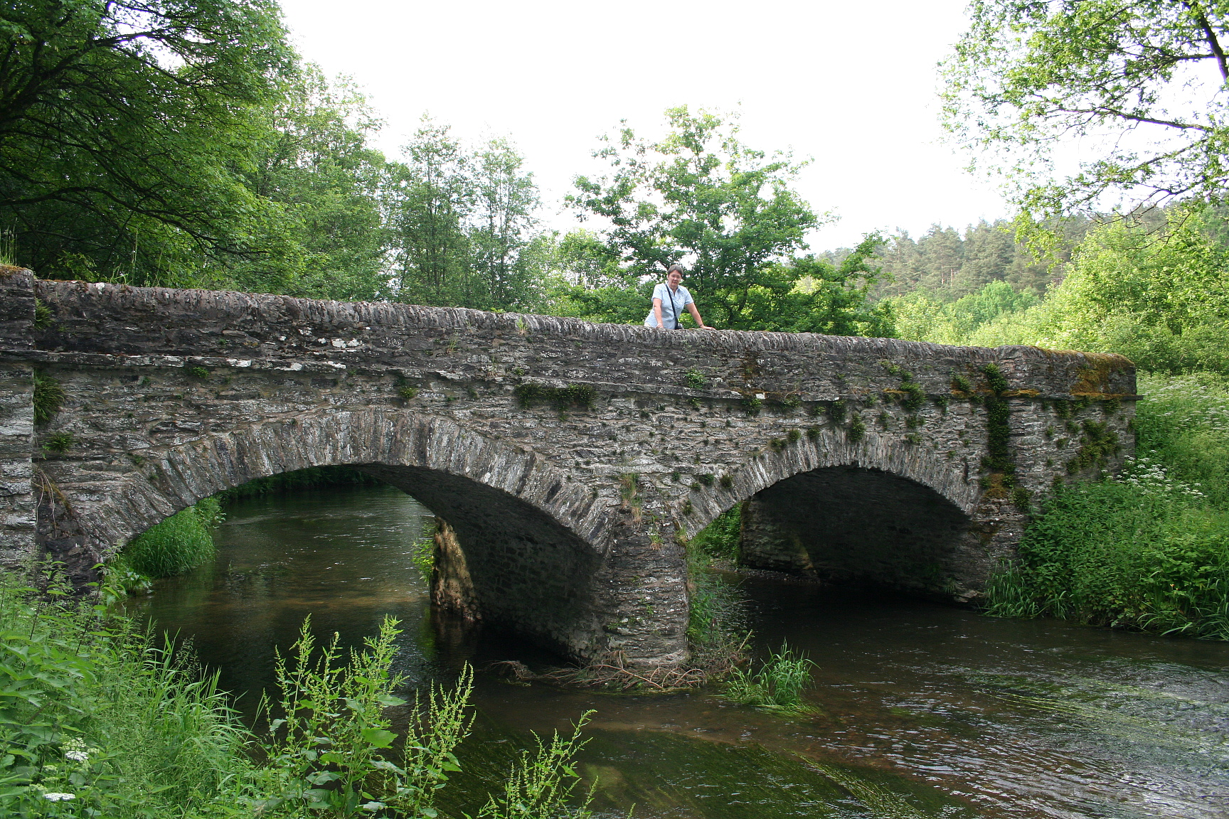 The old « de la Justice » bridge (XIXth century) crossing the Lesse river in the eastern part of the village of Maissin (Belgium).